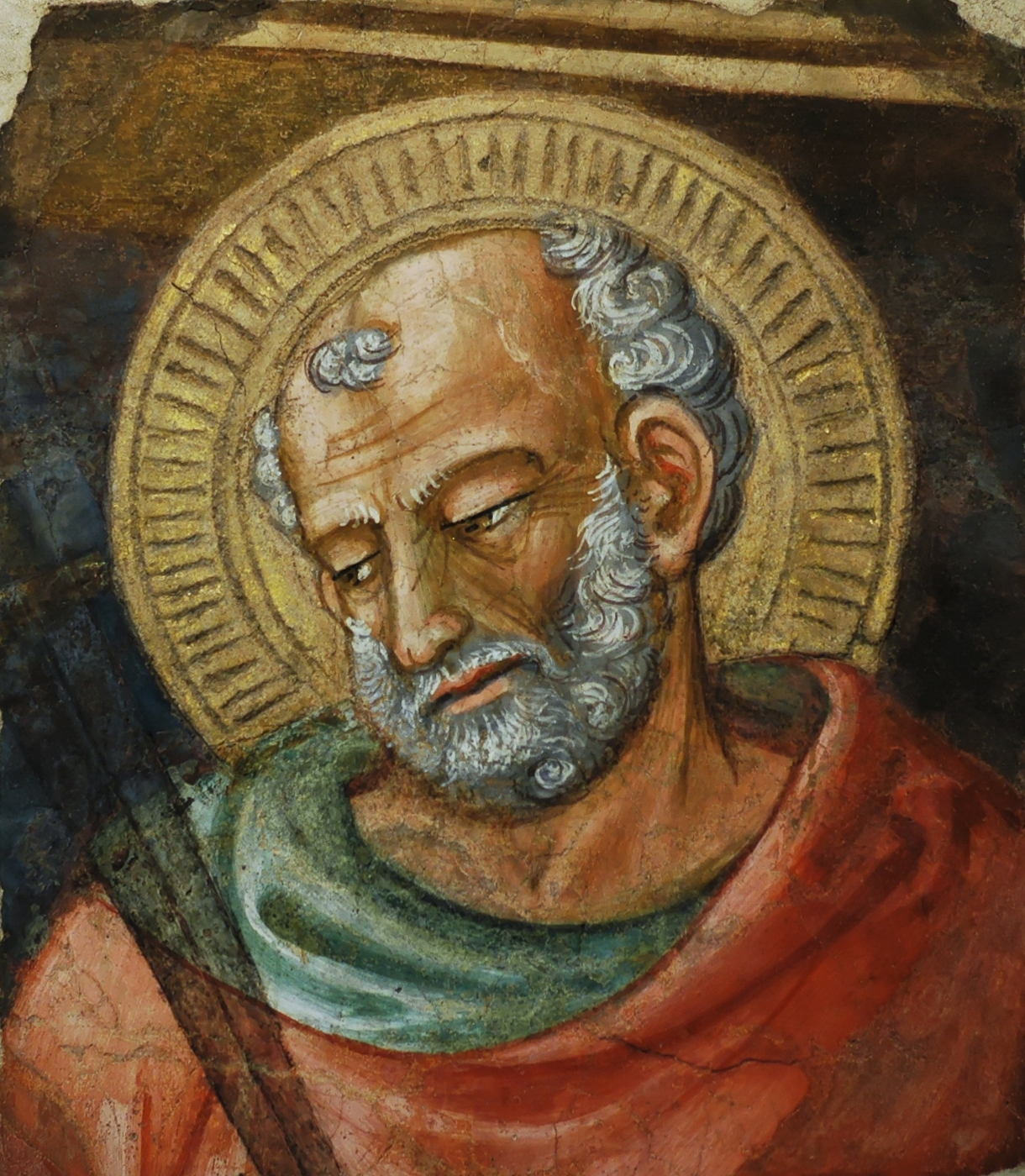 Fragment of a fresco removed from the nave of the Duomo of Florence at the time of the 17th century restoration, conducted by Baccani.